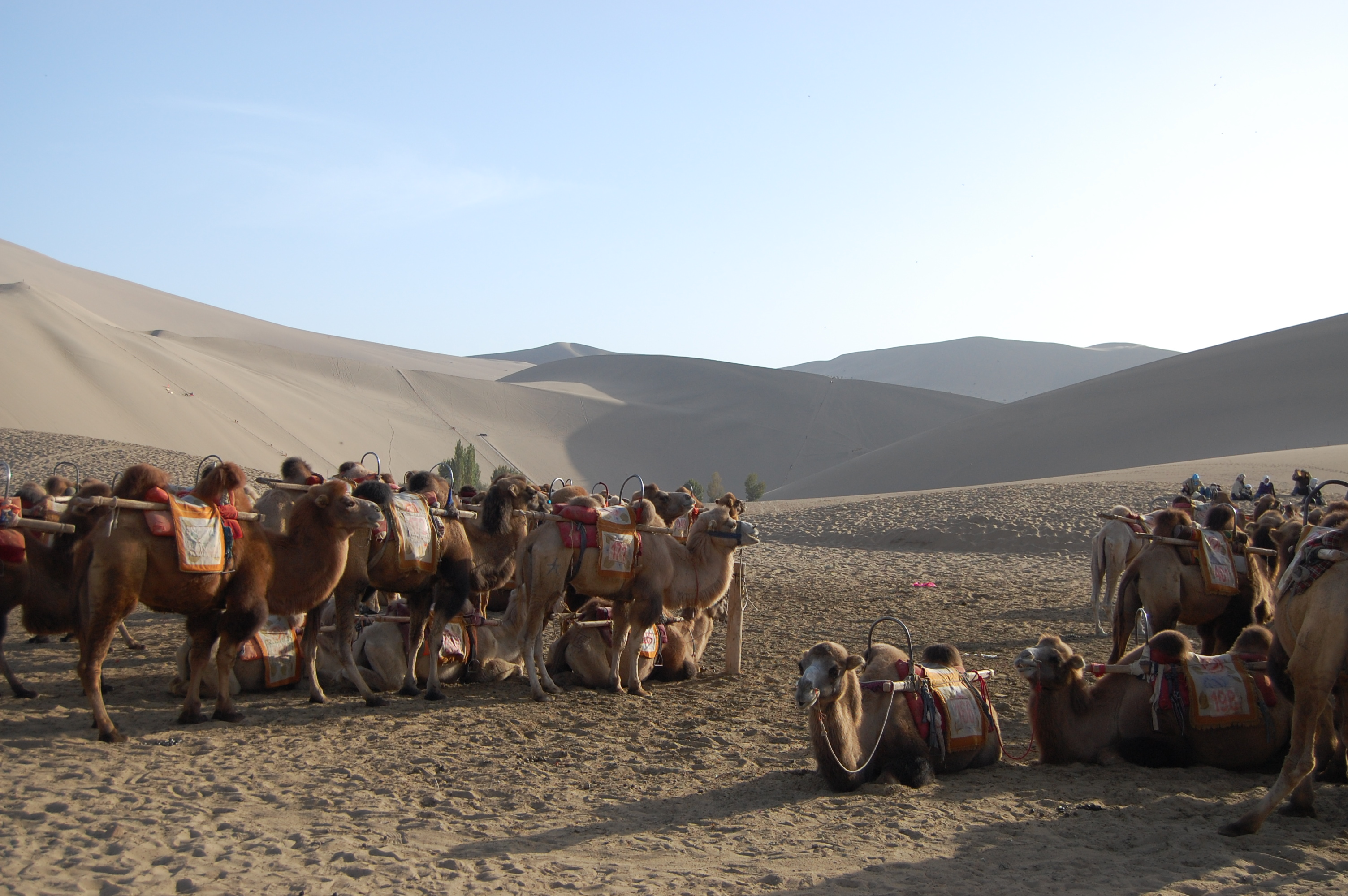 Surroundings of the Crescent Lake in Gobi Desert near Dunhuang, Gansu Province, China